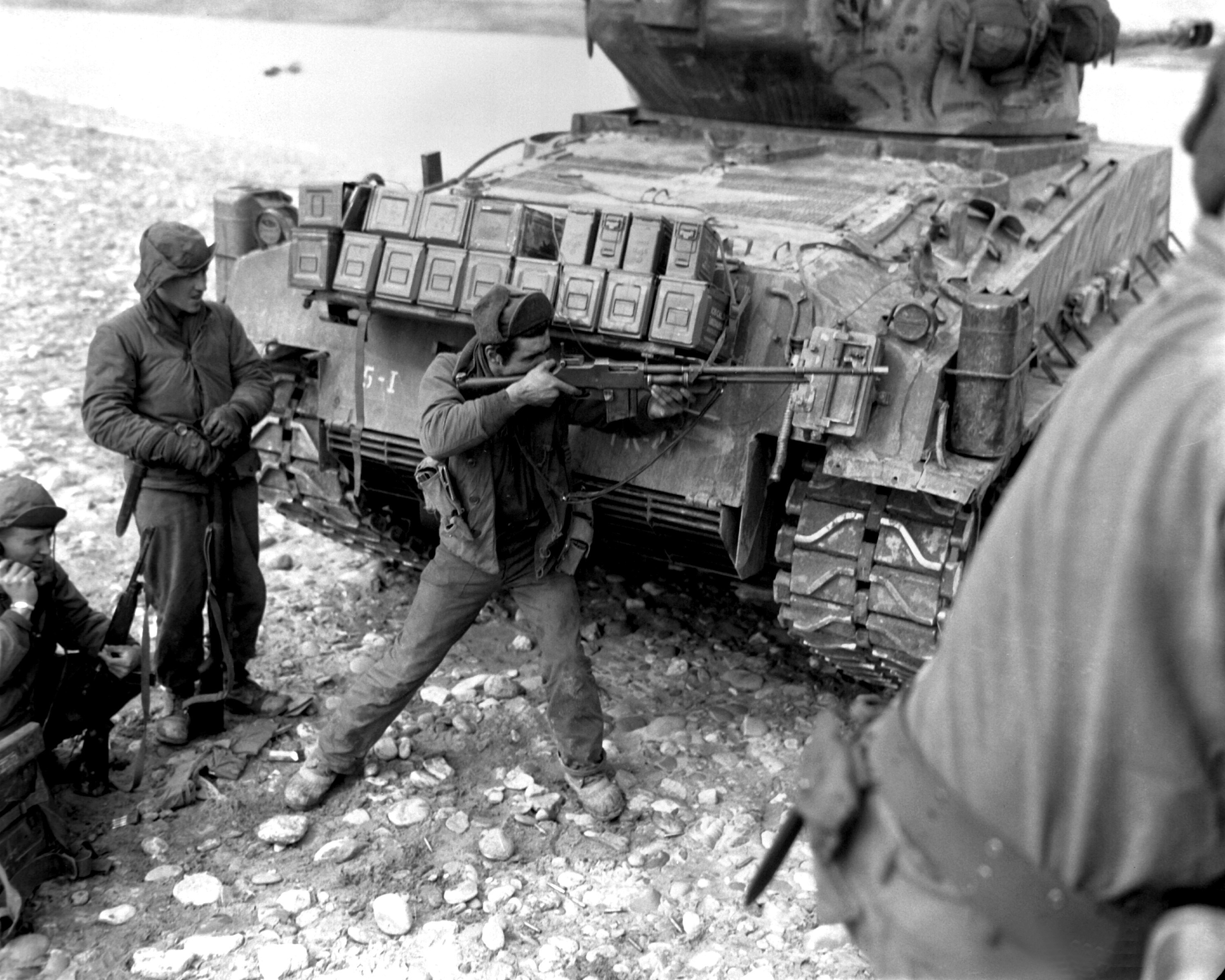 Taking cover behind their tank escort, one man of this ranger patrol of the 5th RCT, U.S. 24th Infantry Division, uses his BAR to return the heavy Chinese Communist small arms and mortar fire which has them pinned down on the bank of the Han River. At left another soldier uses a field radio to report the situation to headquarters. NARA FILE#: 111-SC-358782